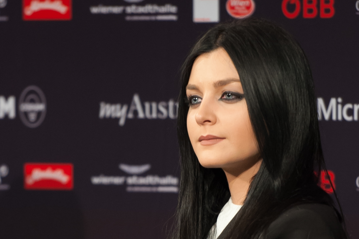 Eurovision Song Contest Vienna 2015: Nina Sublatti